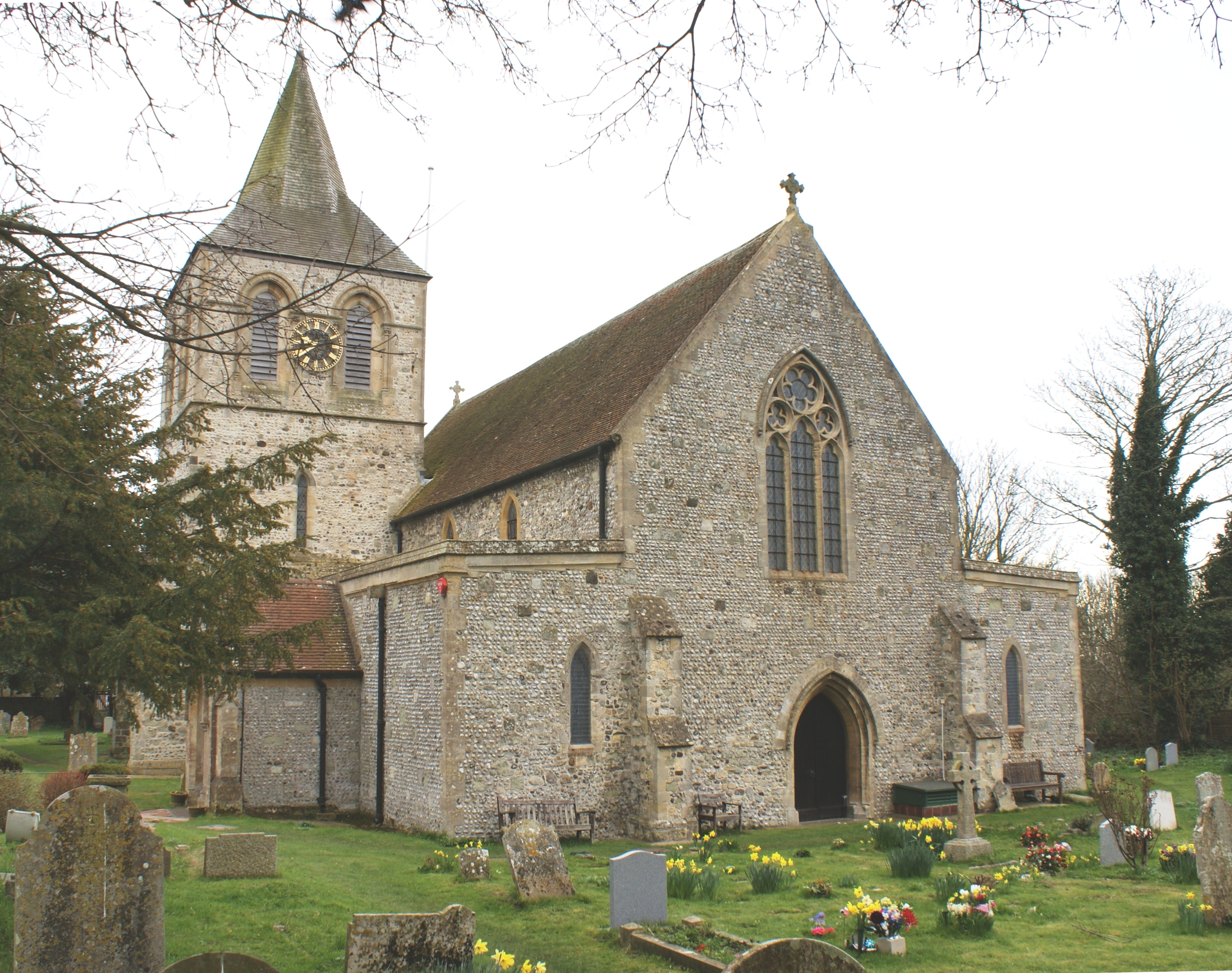 St. Nicolas Church, the Parish Church of Pevensey, England, following recent restoration work.